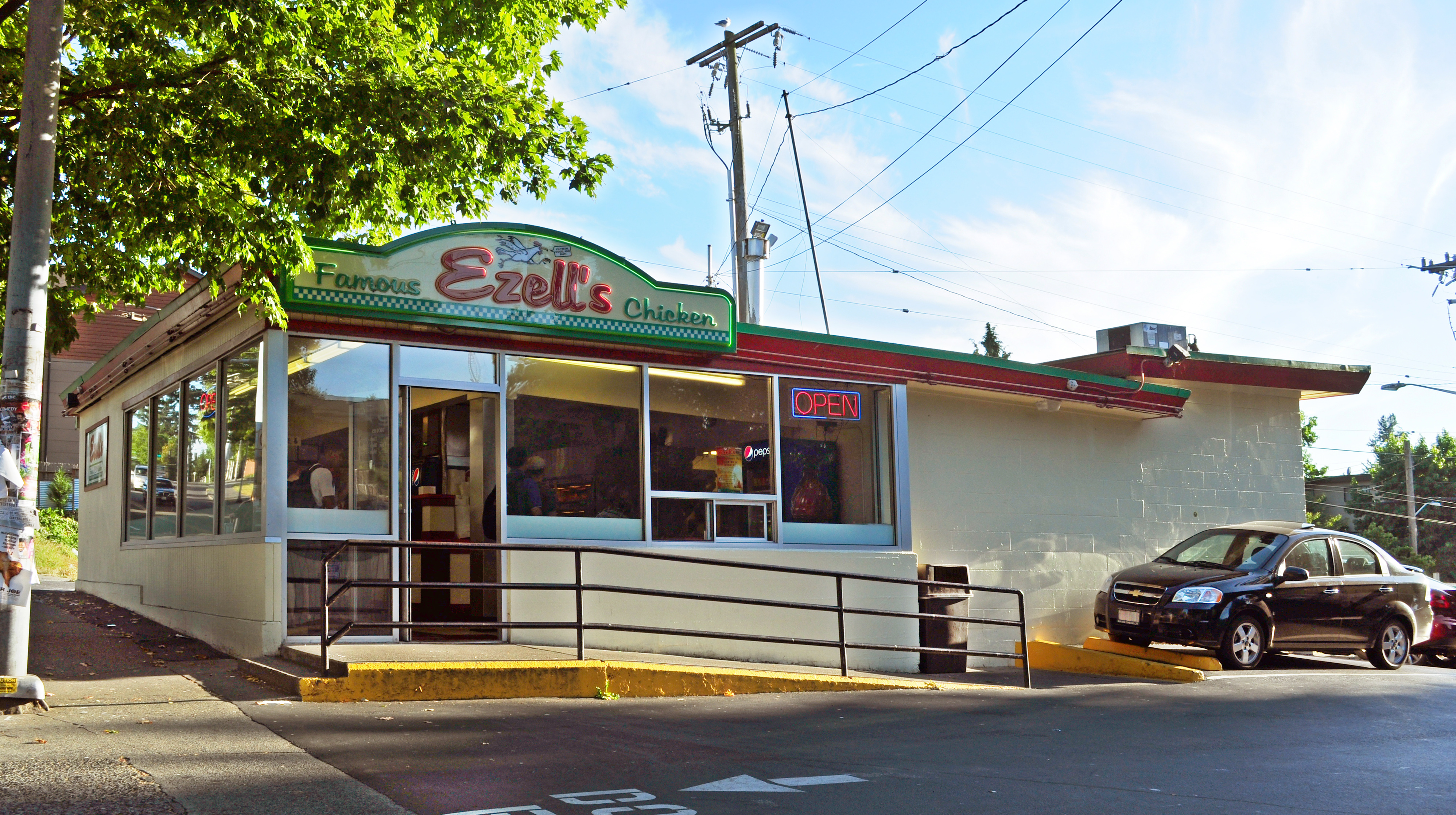 The original Ezell's on 23rd Ave, Seattle, Washington, across the street from Garfield High School.